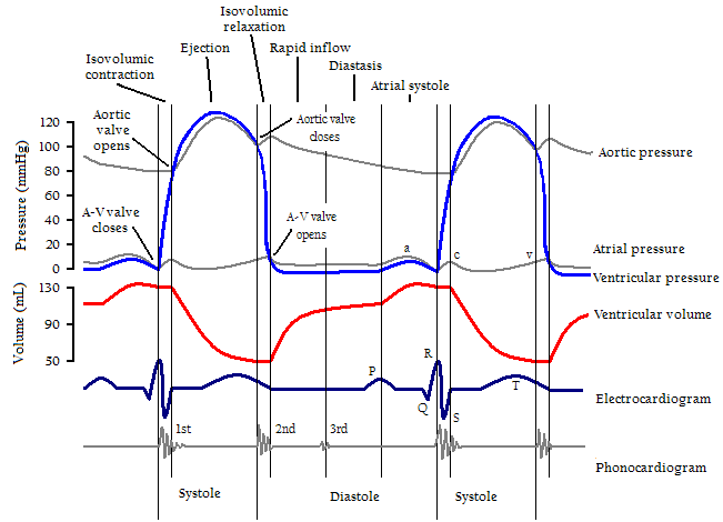 A Wiggers diagram, showing the cardiac cycle events occuring in the left ventricle. In the atrial pressure plot: wave "a" corresponds to atrial contraction, wave "c" corresponds to an increase in pressure from the closed mitral valve bulging into the atrium during ventricular systole, and wave "v" corresponds to passive atrial filling. In the electrocardiogram: wave "P" corresponds to the onset of atrial depolarization, waves "QRS" (aka QRS complex) correspond to the onset of ventricular depolarization, and wave "T" corresponds to ventricular repolarization. In the phonocardiogram: The sound labeled 1st contributes to the S1 heart sound and is the reverberation of blood from the sudden closure of the mitral valve (left A-V valve) and the sound labeled "2nd" contributes to the S2 heart sound and is the reverberation of blood from the sudden closure of the aortic valve.